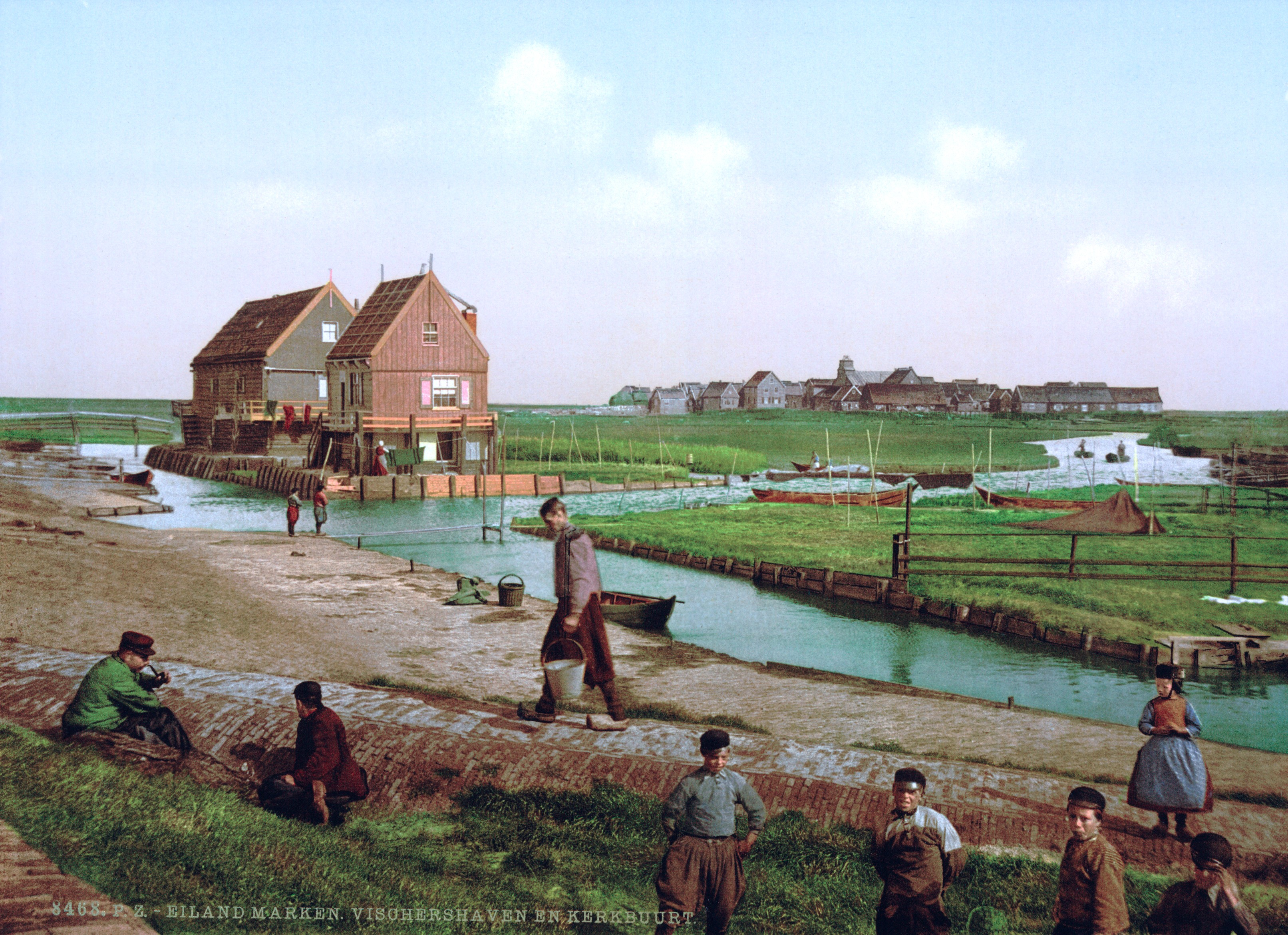 Fishing-port of the Isle of Marken, Netherlands, 1900